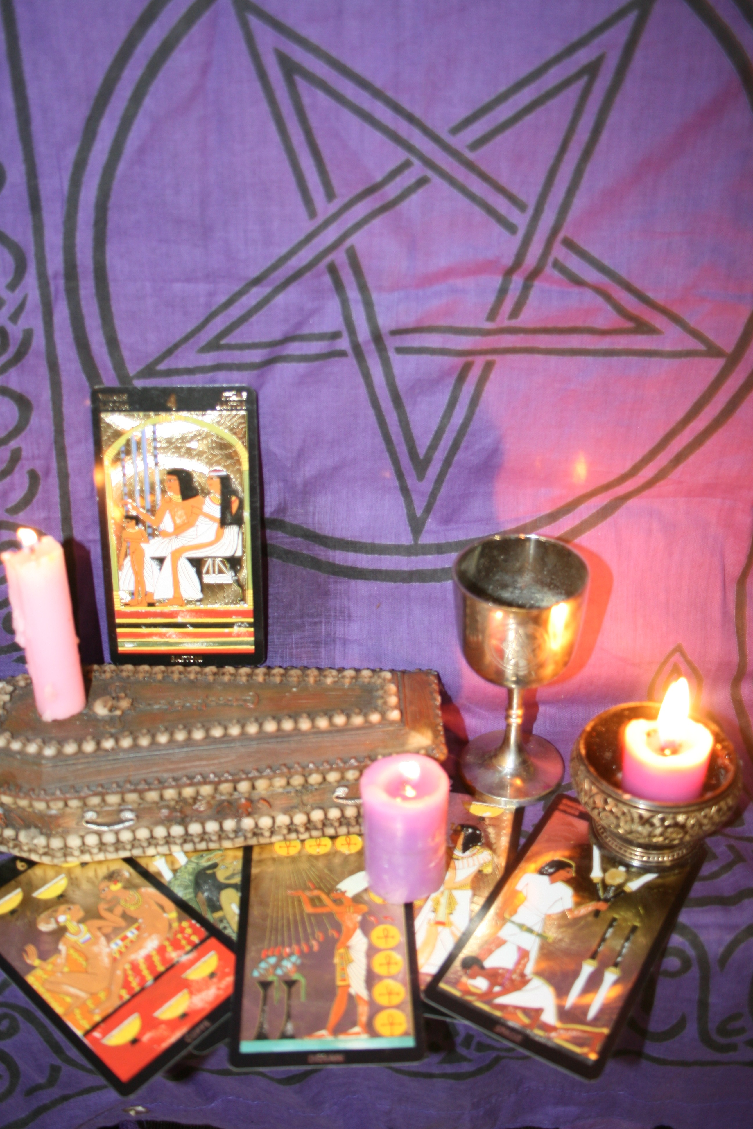 magic ritual